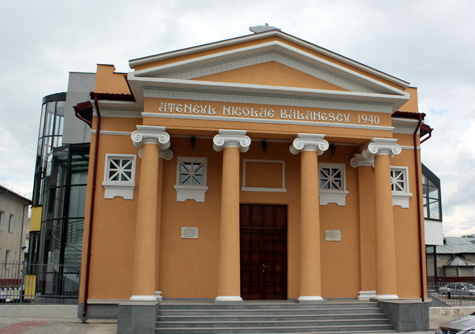 Atheneum building in the town of Giurgiu, Romania